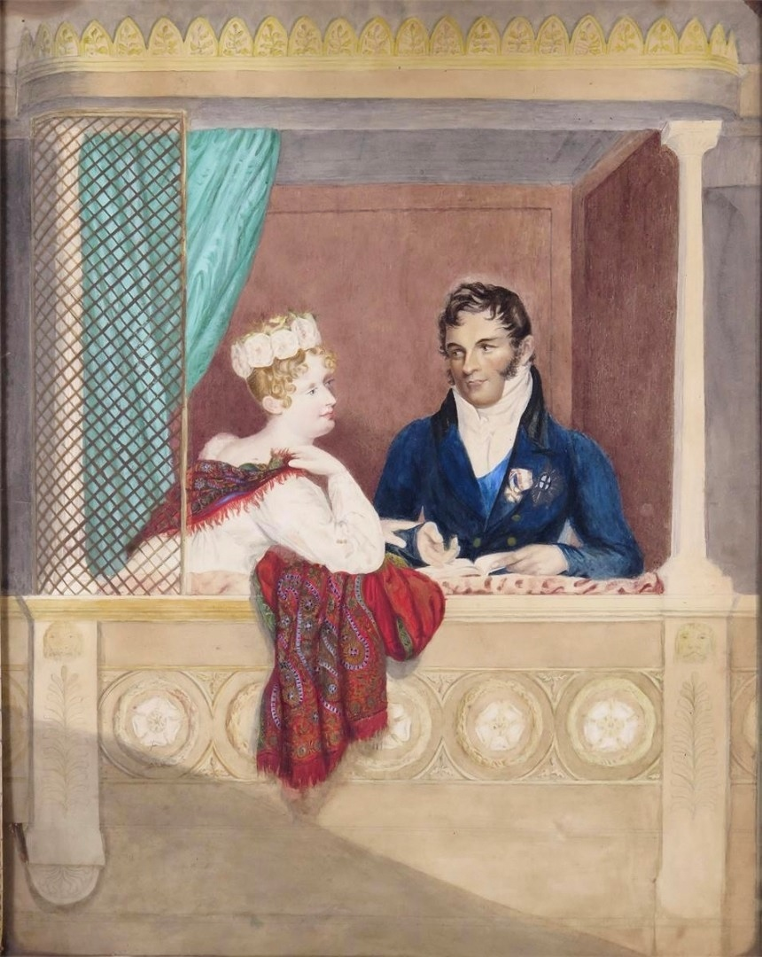 Princess Charlotte Augusta of Wales and Prince Leopold of Saxe Cobourg Gotha in their box at Covent Garden